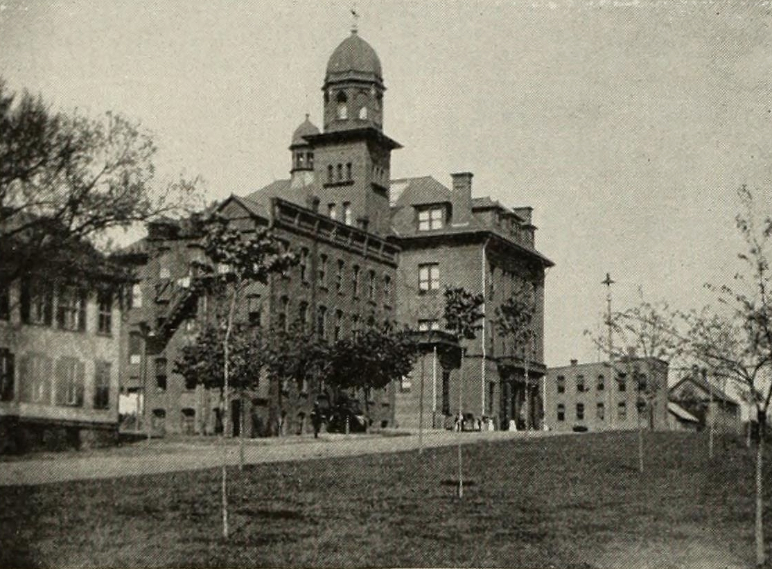 The Notre Dame du Perpetual Secours (lit. "Our Lady of Perpetual Help") Church and subsequent school, at the present site of the Mater Dolorosa School by Prospect Park, Holyoke. This building was demolished sometime between 1920 and 1960.